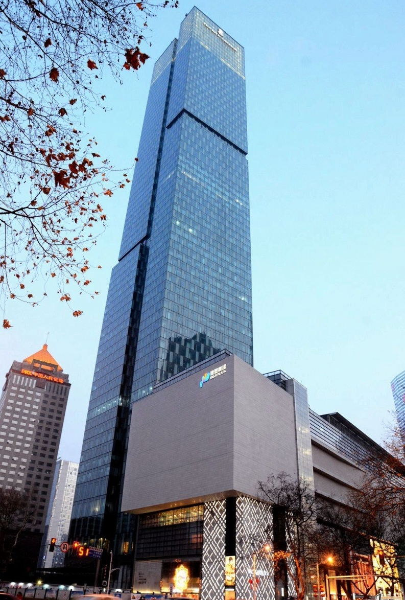 Deji plaza in Xuanwu District of Nanjing, Jiangsu, China.